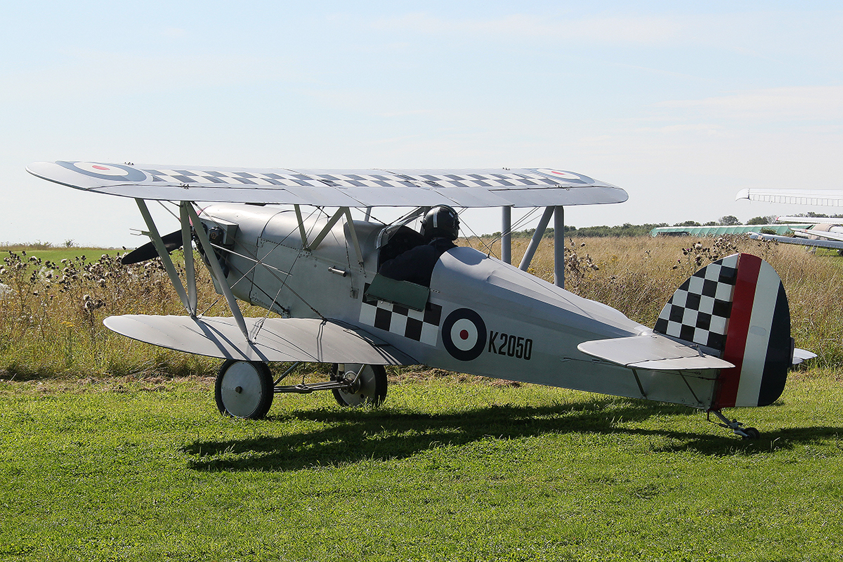 G-ASCM Isaacs Fury II @ Enstone 25/08/2017